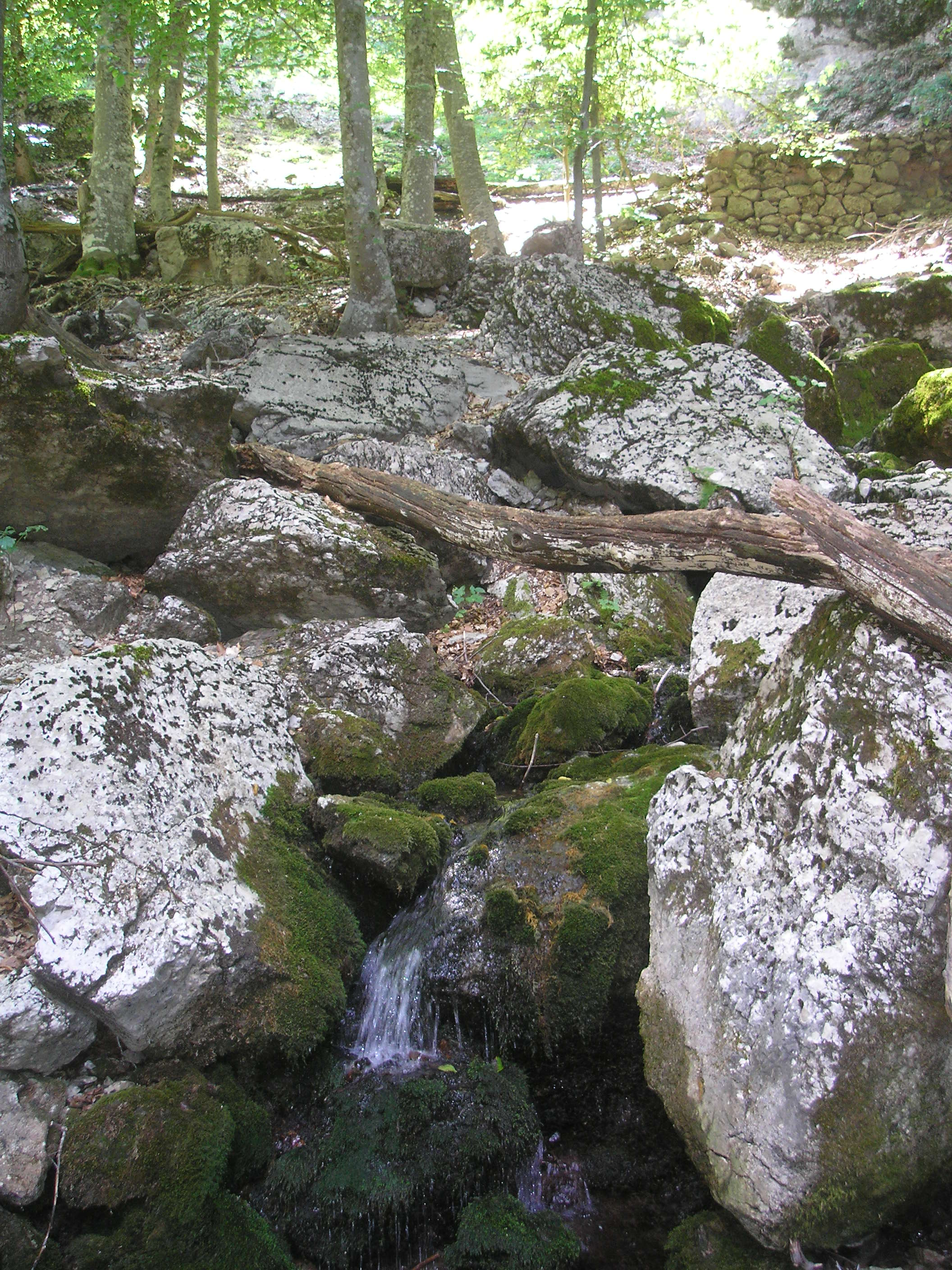 Source of the river Kacha, Crimea.